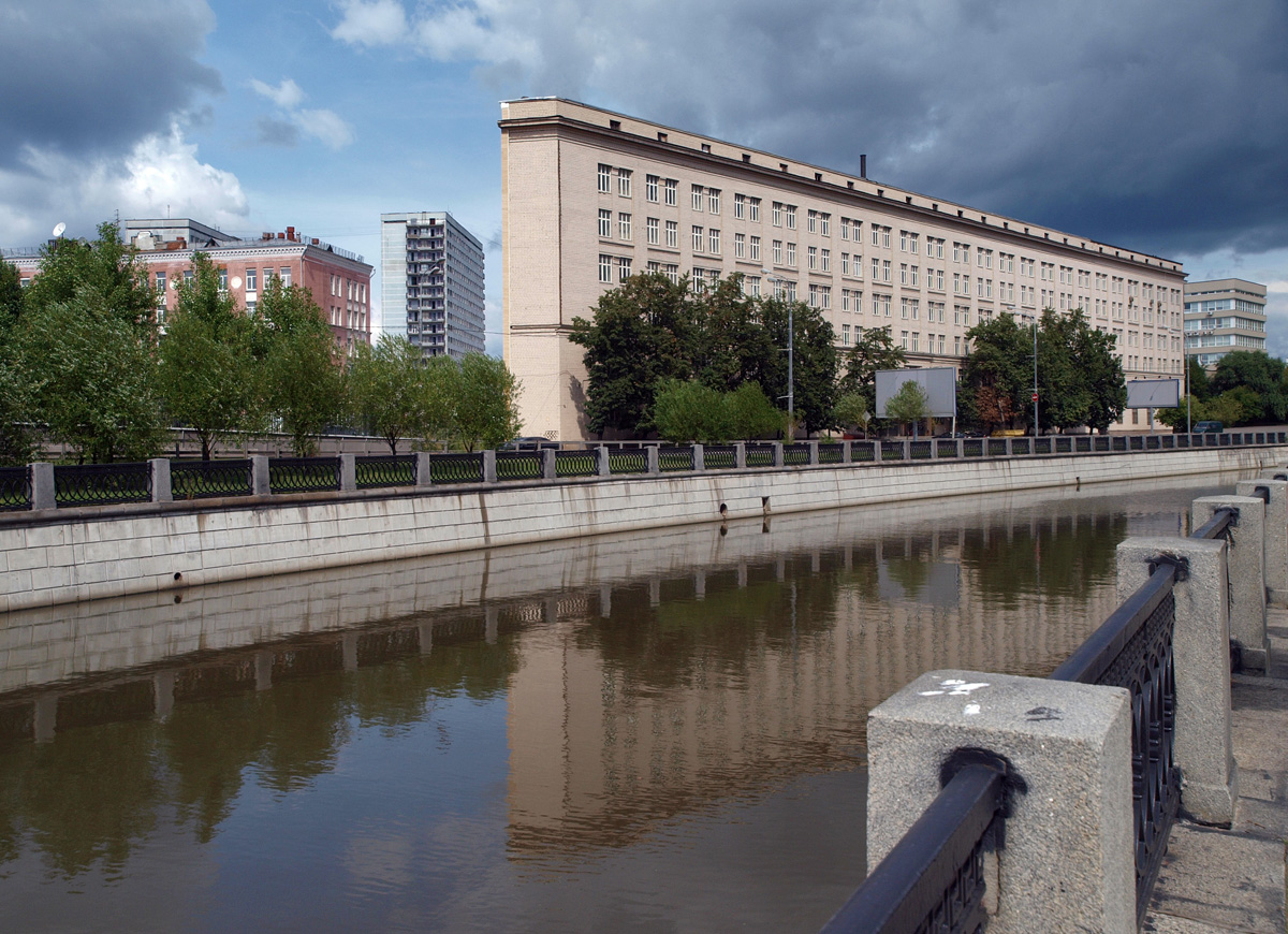 Lefortovskaya Embankment, Moscow. The long building on the right houses department of Energy Machines of the Bauman Moscow State Technical University.